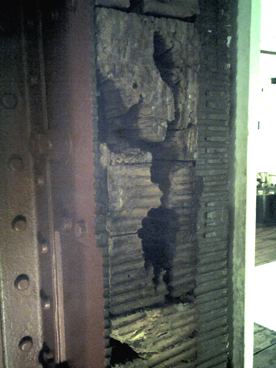 Section of bulkhead of HMS Warrior (1860), in Portsmouth Historic Dockyard, Hampshire, UK. This is taken from a modern door cut through the bow bulkhead of the armoured citadel amidships on the lower deck. This should be representative of the Warrior's armour scheme of 4in iron plate backed by 18in of teak. The bows of the ship are beyond the right edge of the photo. Visible in the bulkhead, from right to left, are (a) the wrought iron armour plate; (b) the teak backing to the armour; (c) the iron hull.